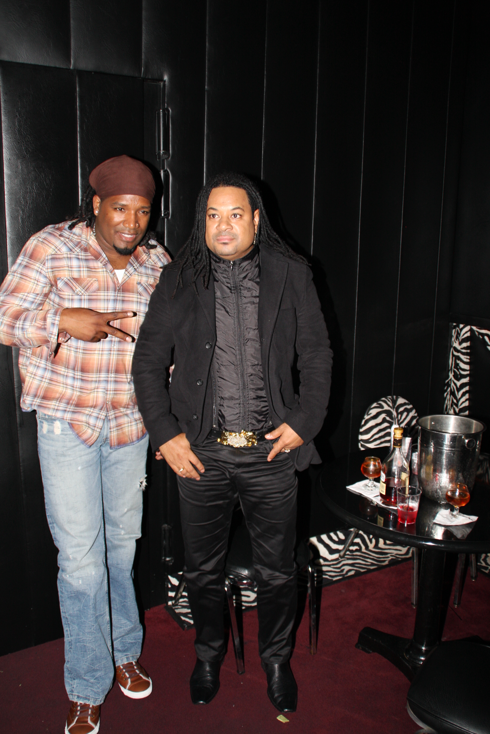 Dominican bachata singer Luis Vargas.